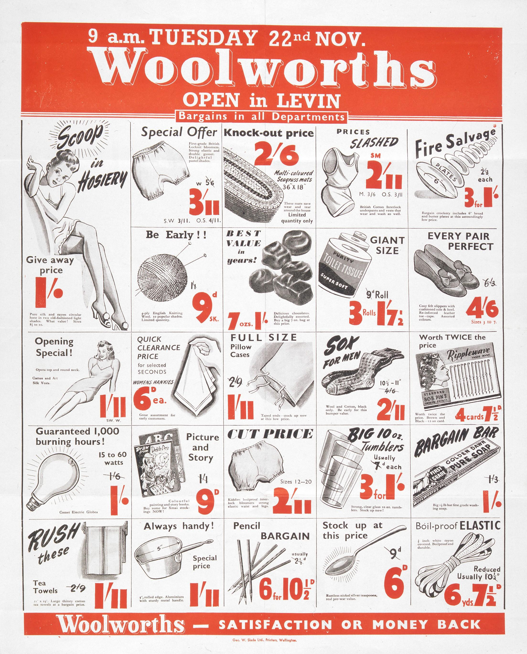 Woolworths Ltd., Woolworths, open in Levin. Bargains in all departments, ca 1949, Photolithograph 540 x 432 mm, Printed Ephemera Collection, Alexander Turnbull Library, Reference: Eph-D-RETAIL-1949-01 As the country slowly recovered from war shortages, variety stores such as Woolworth’s and McKenzie’s used this matter-of-fact format in the 1940-1950s, with individual squares clearly advertising each product with its price beside it. From a teatowel to a tumbler, from slippers to knitting wool, no product was too humble to appear proudly in print, as a more comfortable everyday life resumed. Take a closer look